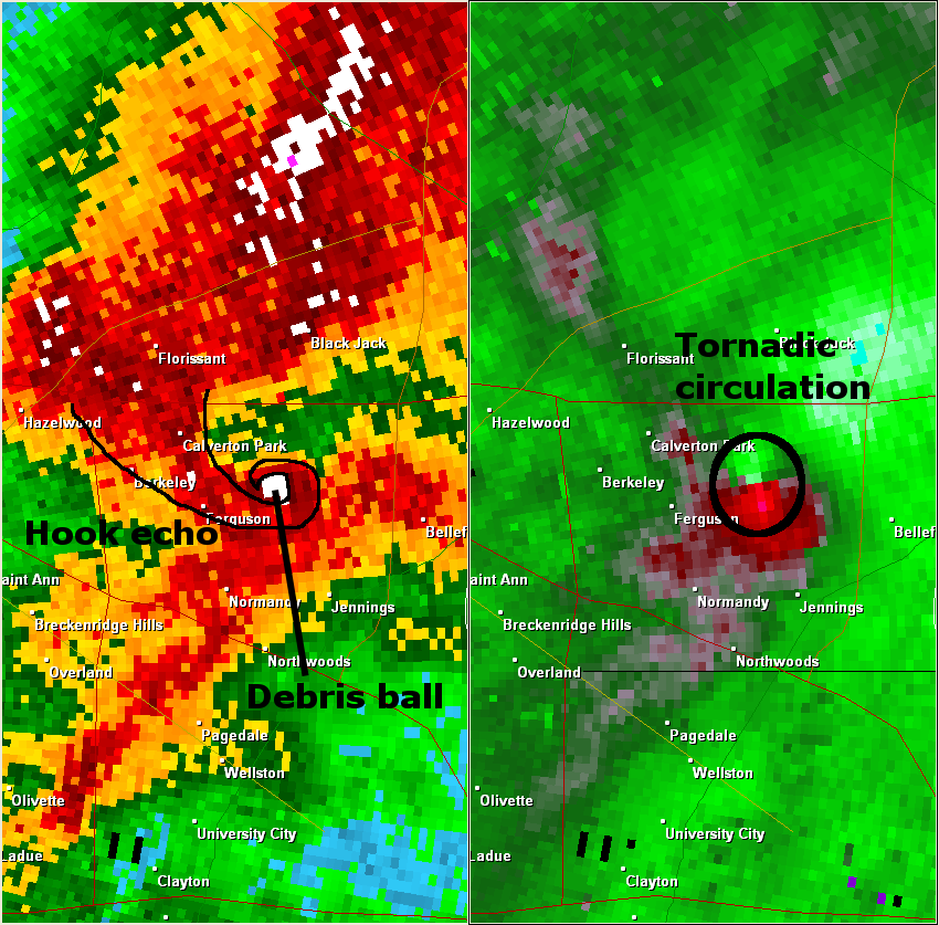 Radar image of the supercell that produced the 2011 St Louis tornado. Base reflectivity is on the left and storm relative velocity on the right.